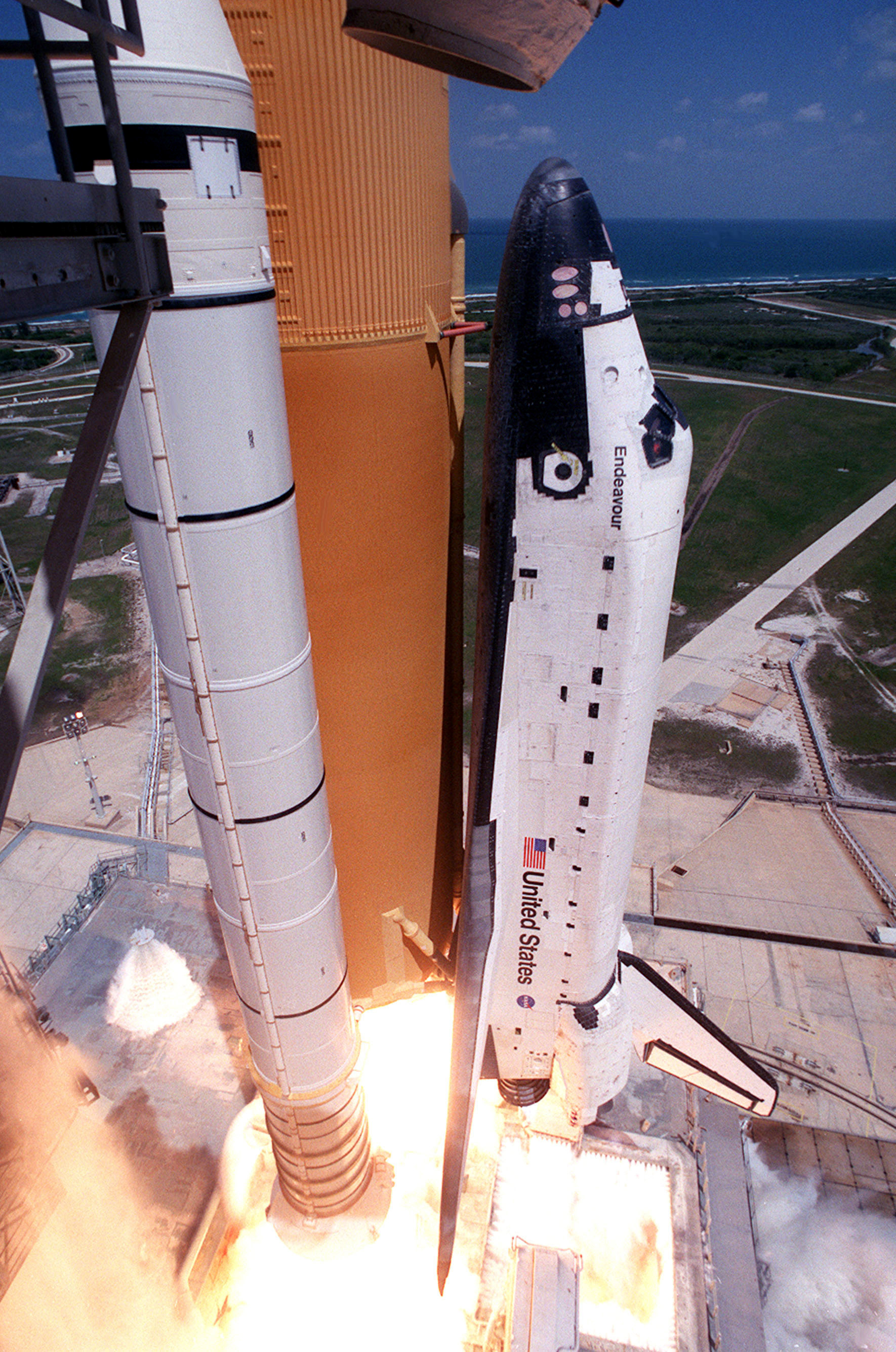 KENNEDY SPACE CENTER, Fla. (Apr. 19, 2001) -- The Space Shuttle Endeavour lifts off from the Kennedy Space Center carrying a multi-national crew and a complex canadian-built robotic arm (Canadarm 2) on mission STS-100. Official NASA photo. (RELEASED)